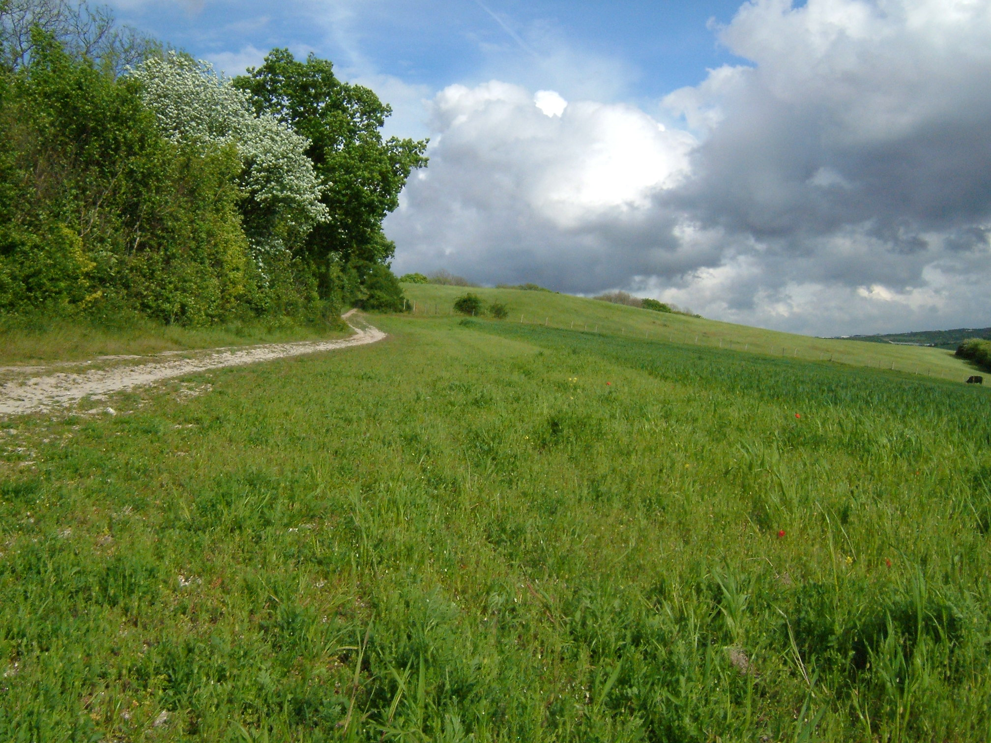 Ranscombe Farm Nature Reserve near Cuxton, Kent on The North Downs Way. Here is the track descending from the dip slope clay tops, to the chalky soil of the Bush Valley, a bourne that leads to the Medway. The path is white due to the poor chalky soil, but this soil is full of flint.